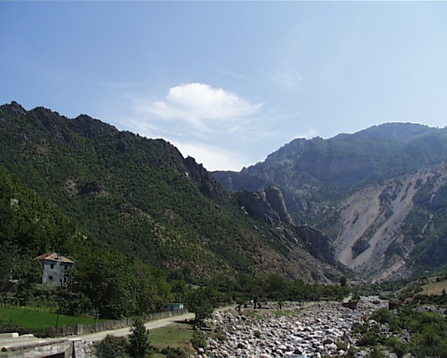 Fan i Vogel, Mirdita, Albania, Near Village of Klos